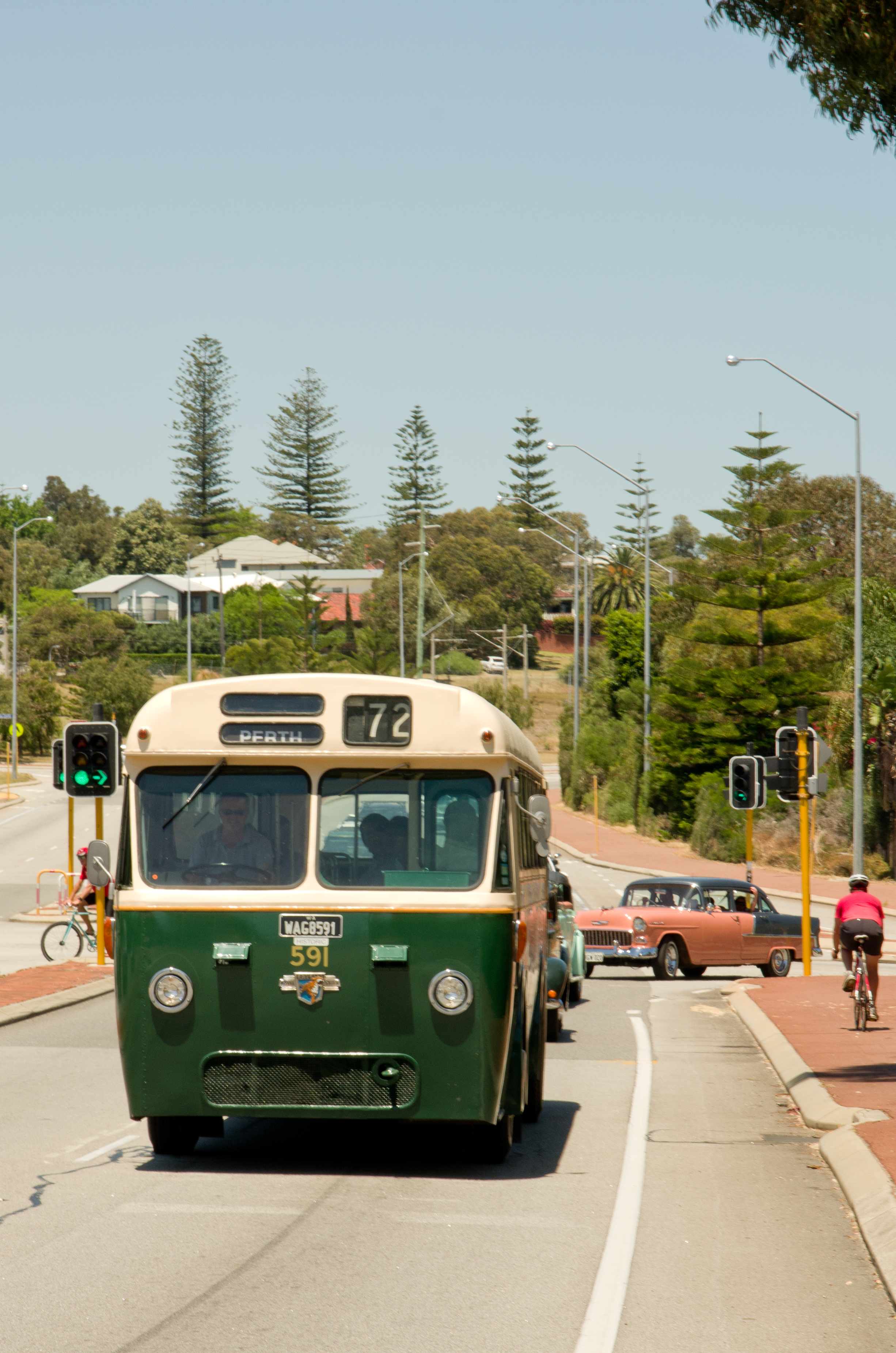 Brockwell Port to Whiteman Park Classic Car Run Leyland Tiger - of Bus Preservation Society of WA